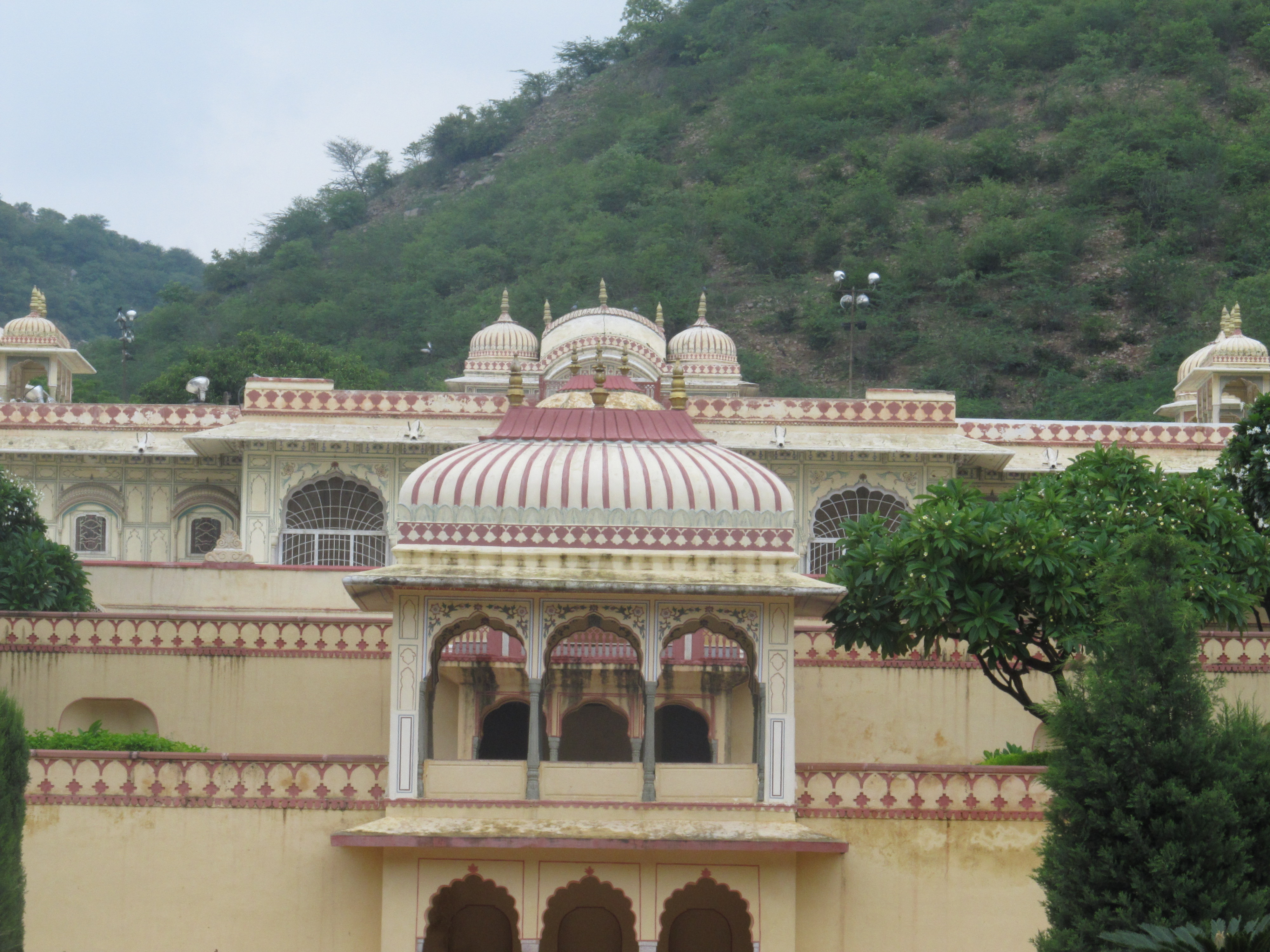 Rani Sisodia garden gives a awesome view with hills on 3 sides. beautiful and calmness also silence away from city's pollution and stuff like that